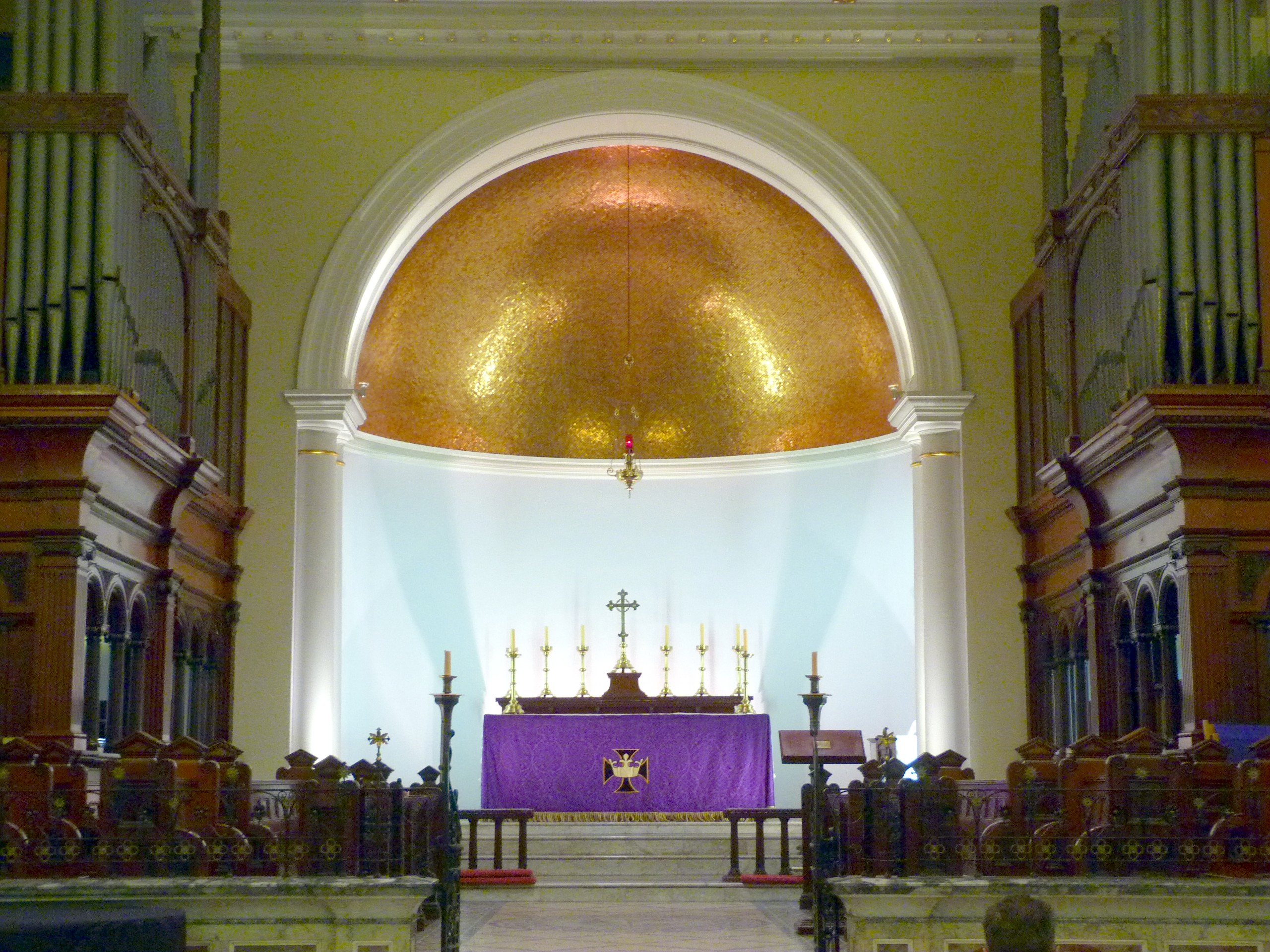 st james church, sydney